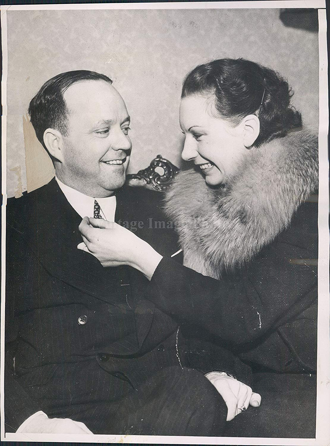 Wedding of Olympic swimmer Helene Madison and Luther C. McIver.